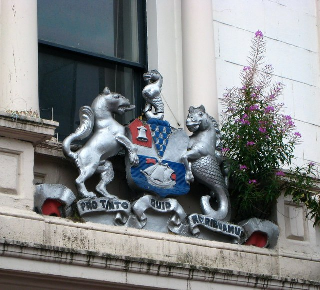 Pro Tanto Quid Retribuamus 'Pro tanto quid retribuamus' is the motto of Belfast, seen here along with the coat of arms for the city above the Exchange and Assembly Rooms - see 485089